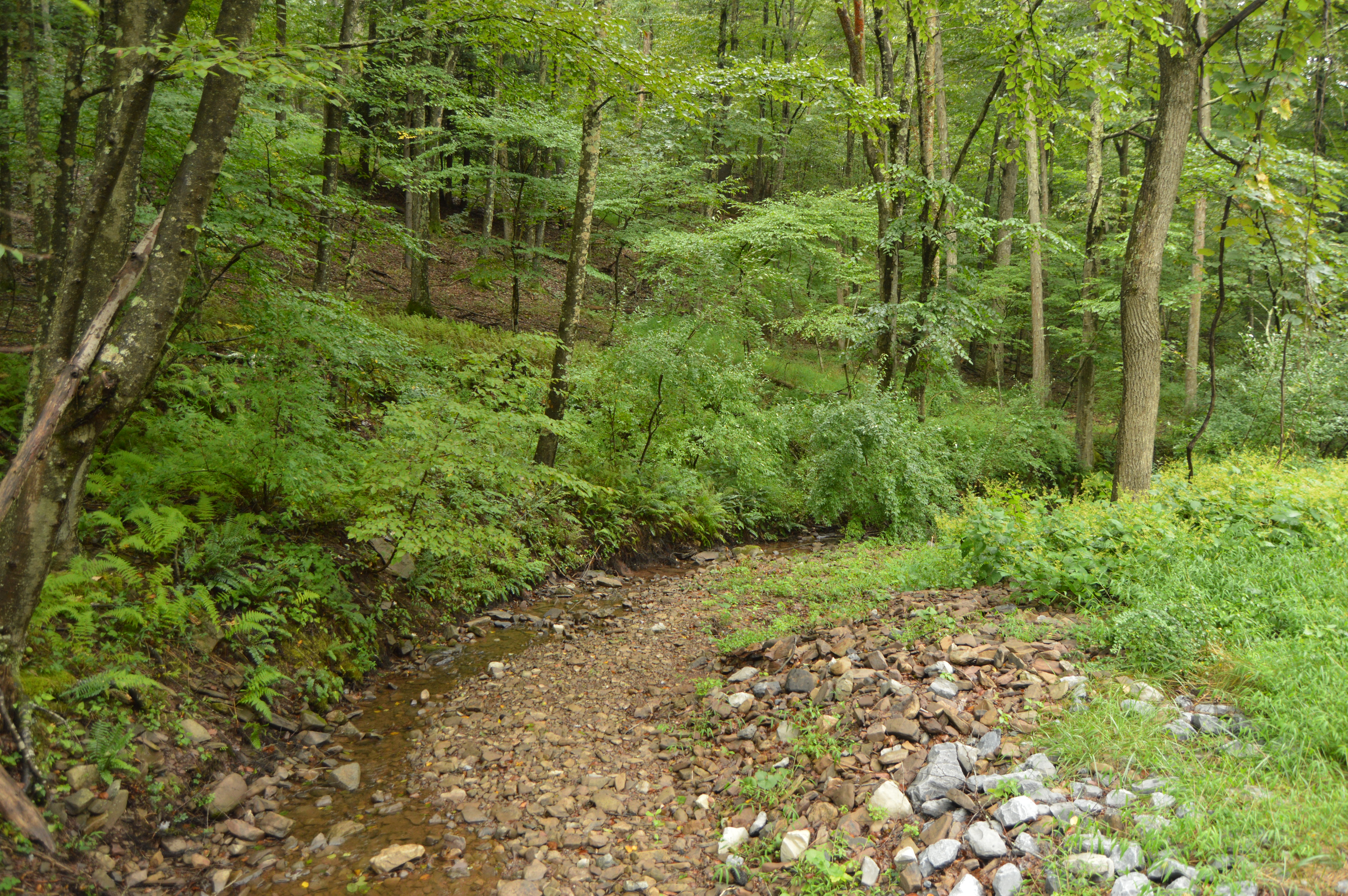 Woodland scene with small creek, located along Amaranth Road just west of McKees Gap on the side of Rays Hill, in extreme southeastern Monroe Township, Bedford County, Pennsylvania, United States. This creek is a tributary of the East Branch of Sideling Hill Creek.